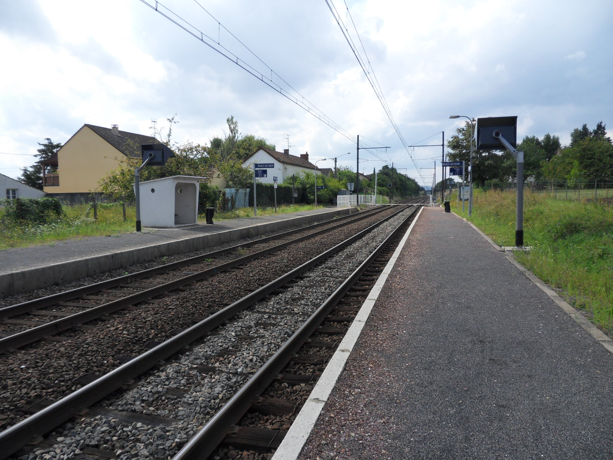 The train station of Gare_Neuilly-lès-Dijon, Côte-d'Or, France.